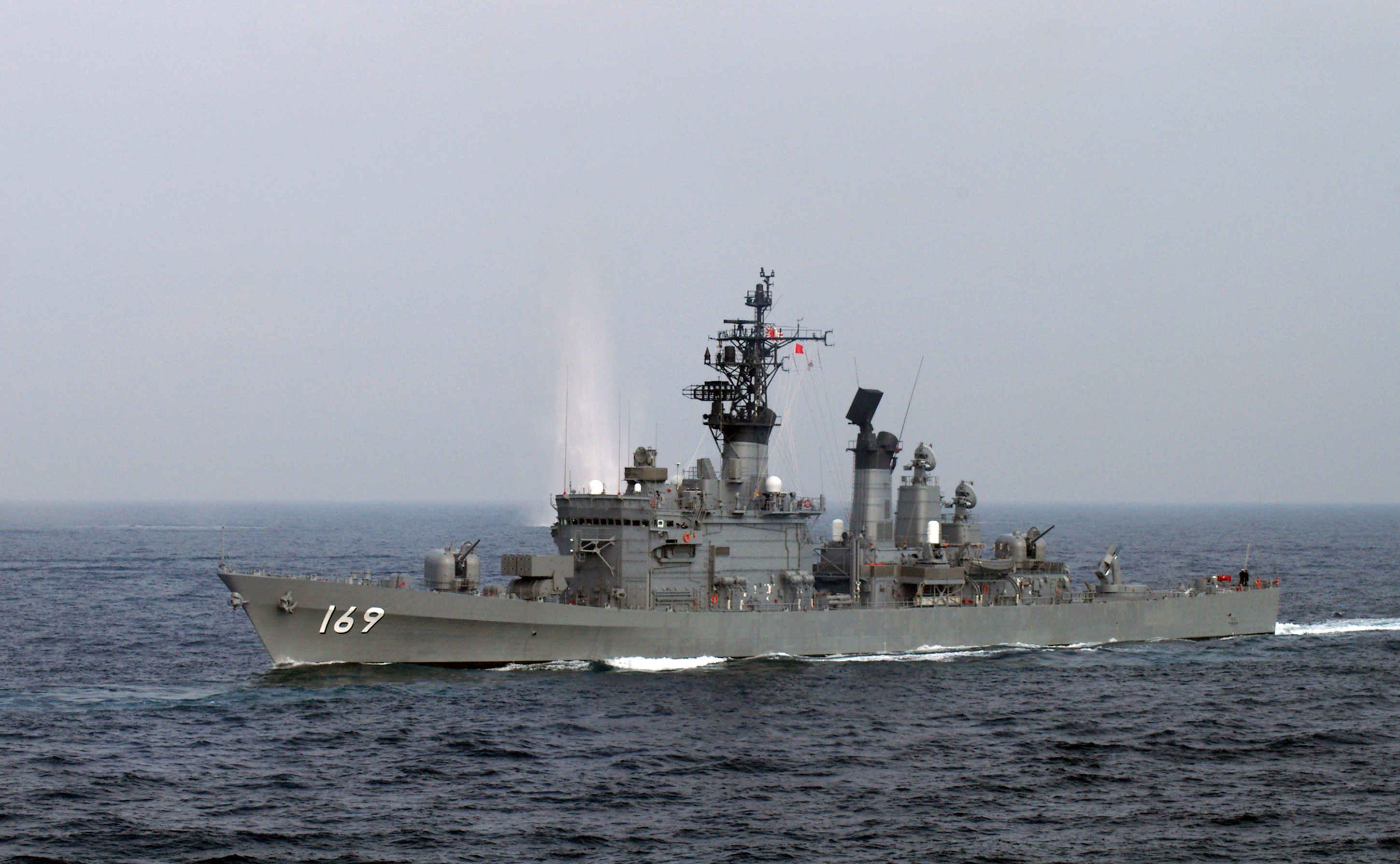 JS Asakaze (DD-169) at SDF Fleet Review 2006. Pentax *istD